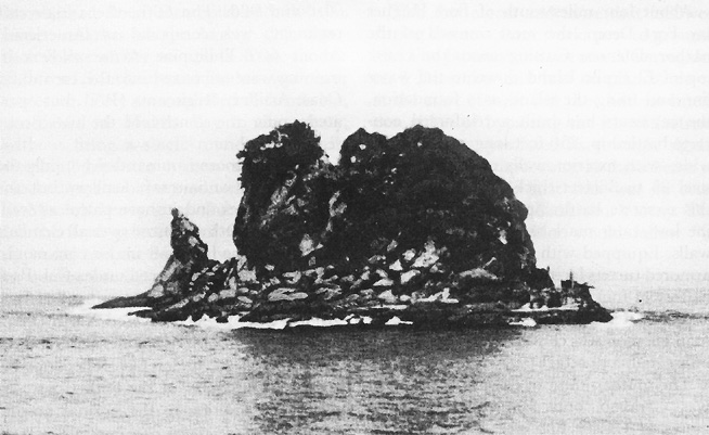 FORT DRUM. El Fraile Island before the concrete battleship was constructed.